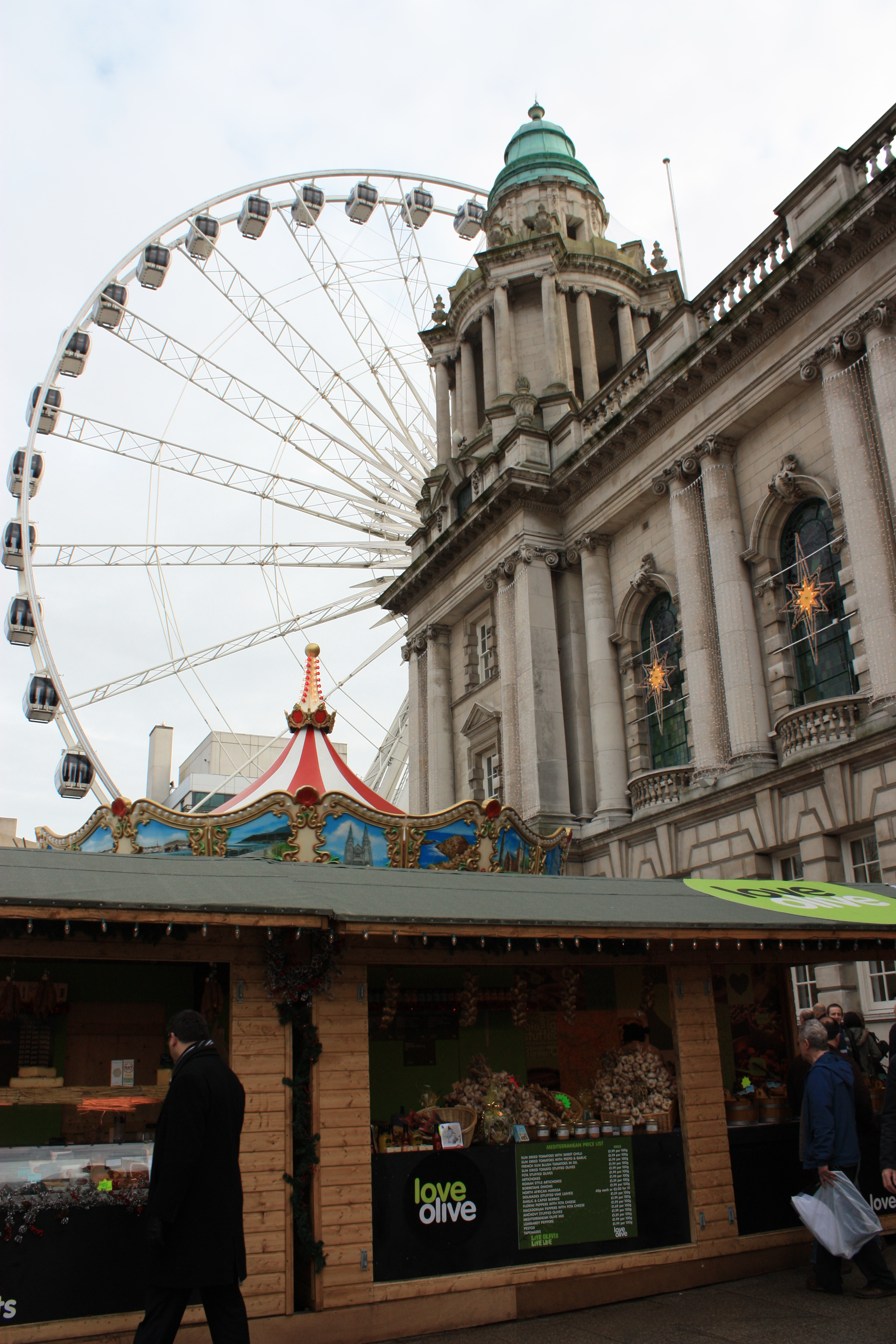 Belfast Wheel (and Christmas Continental Market), City Hall, Belfast, Northrn Ireland, December 2009